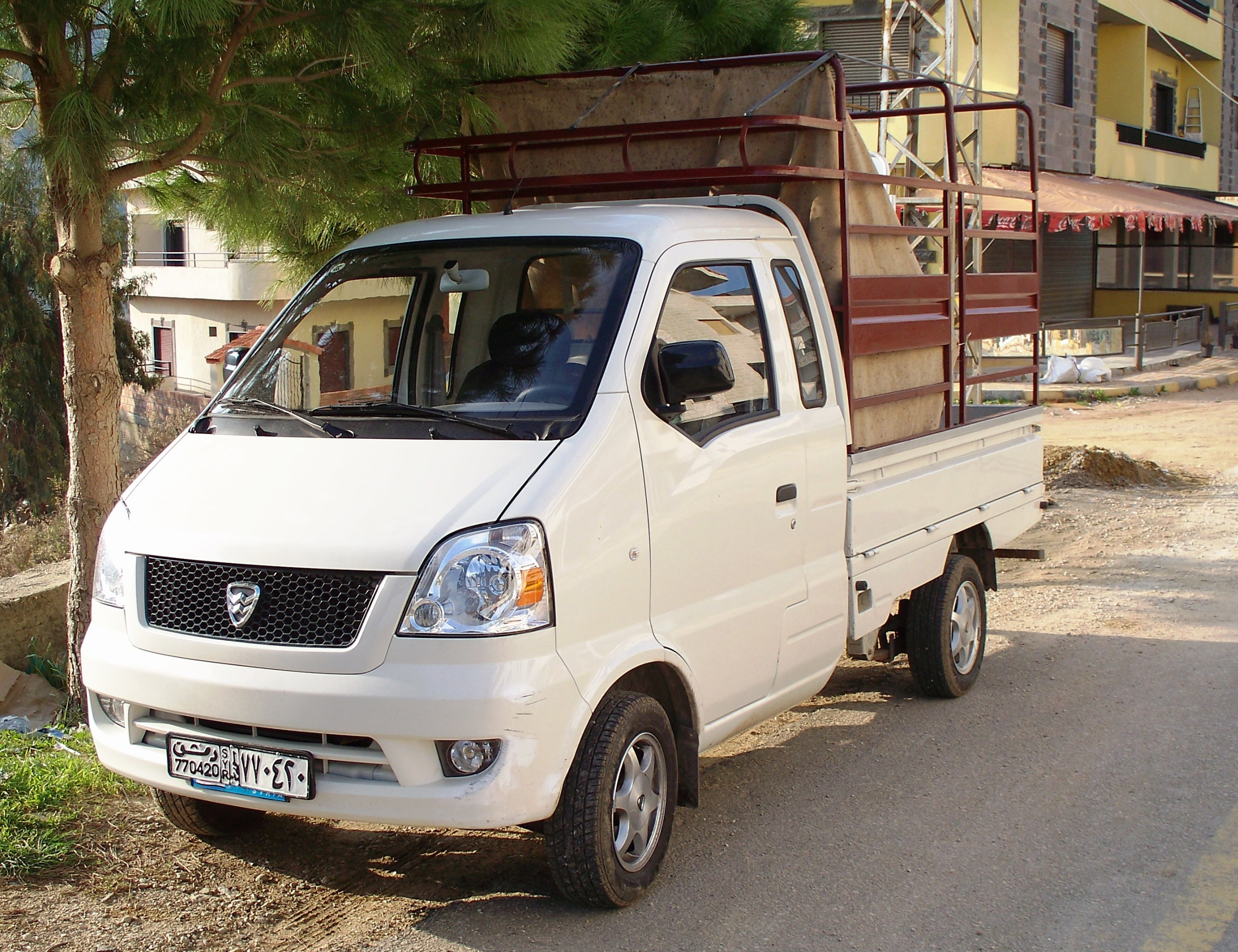 Unidentified van in Syria.